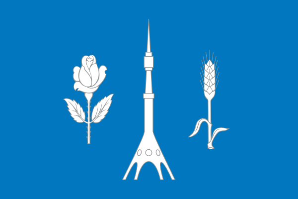 North-East administrative district in Moscow, flag